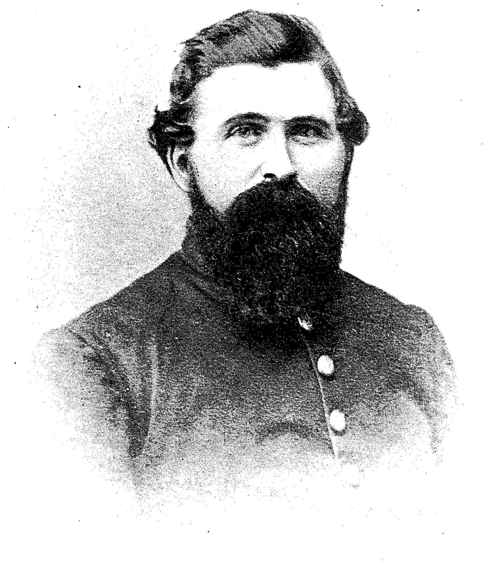 Depicted person: Samuel C. Means – American Army officer